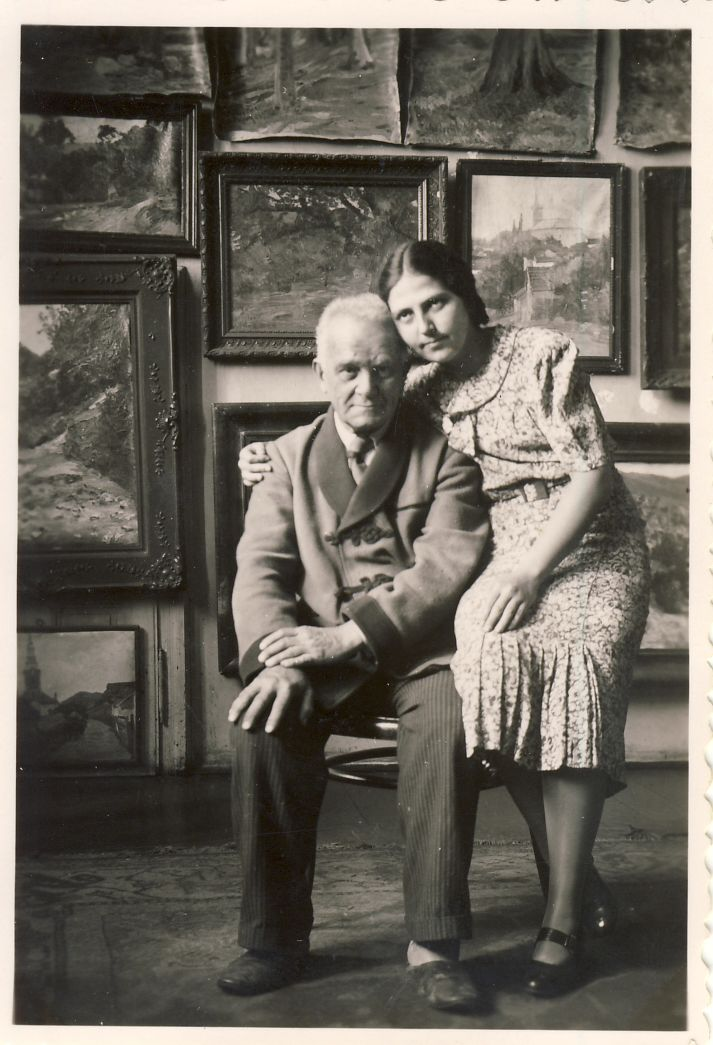 Félix Bódog Widder with his daughter, Magda, mother of Prof. Dr. Judit Vihar in his studio in Teréz körút, Budapest